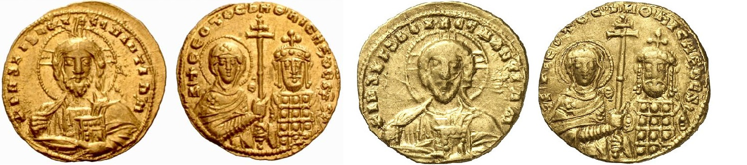 NIKEPHOROS II. Phokas 963-969 left Histamenon 4,42 g right Tetarteron 4,10g